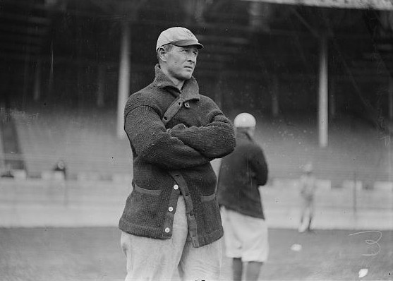 Frank Leroy Chance (1877 - 1924), an American baseball player and manager